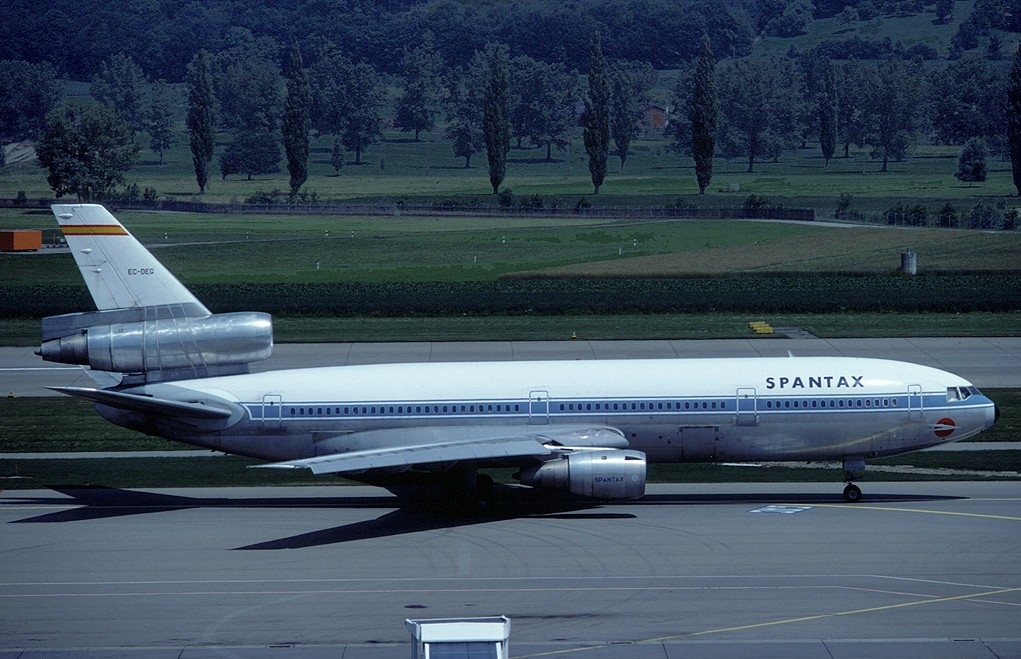 Spantax DC-10 at Zurich Airport